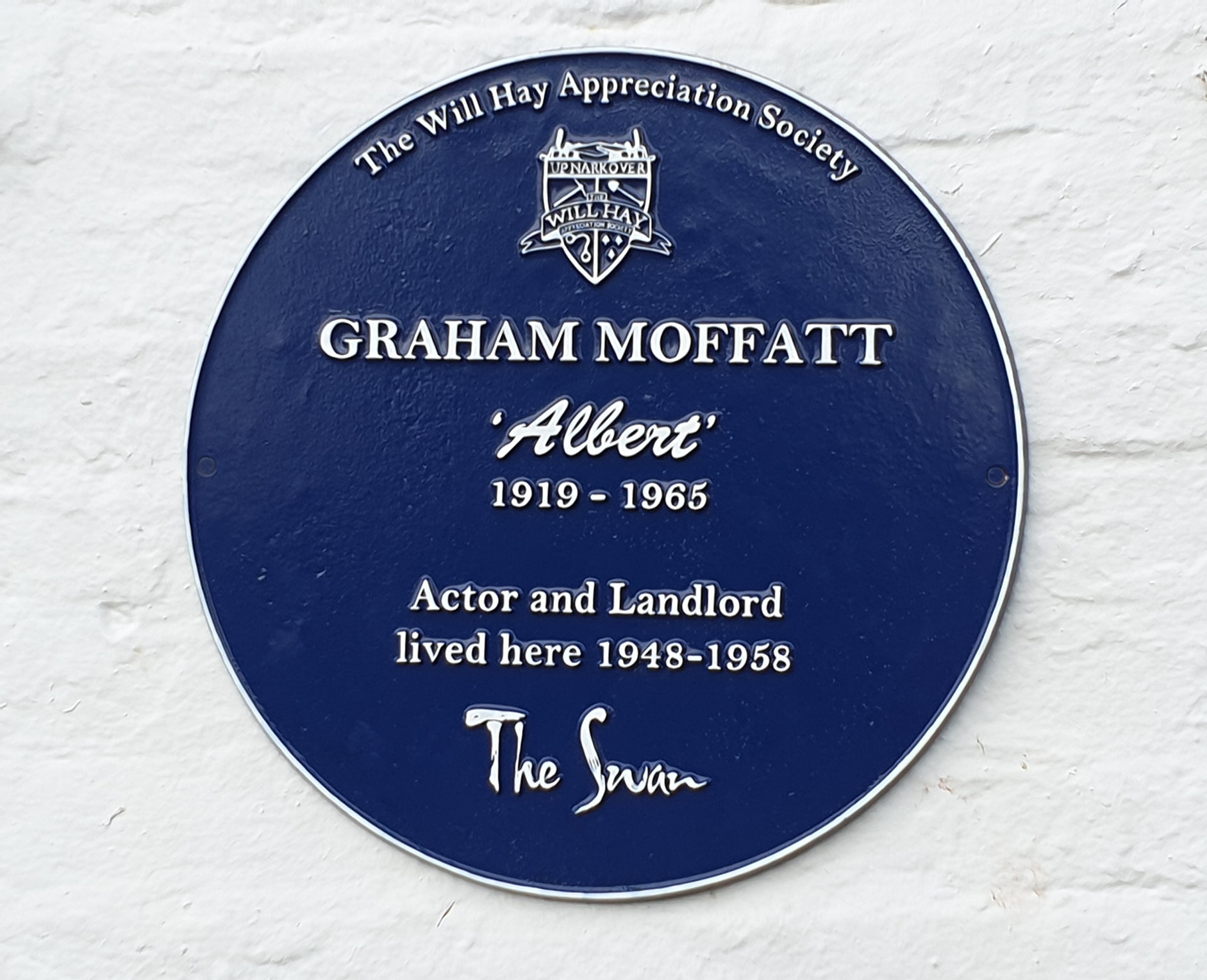 The Will Hay Appreciation Society's blue plaque commemorating actor and landlord Graham Moffatt, unveiled on 18th August 2019, on the wall of the Swan pub in Braybrooke, Northamptonshire.